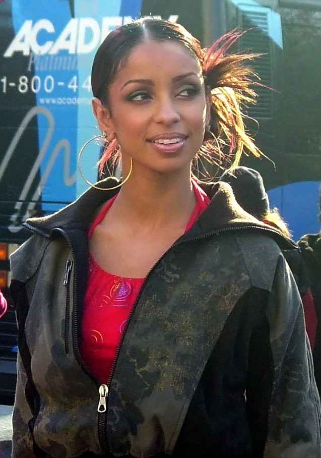 American R&B and pop singer, songwriter, record producer, dancer, actress, and model Mýa standing among fans and media before the start of the 2003 Macy's Thanksgiving Day Parade in New York City, NY.